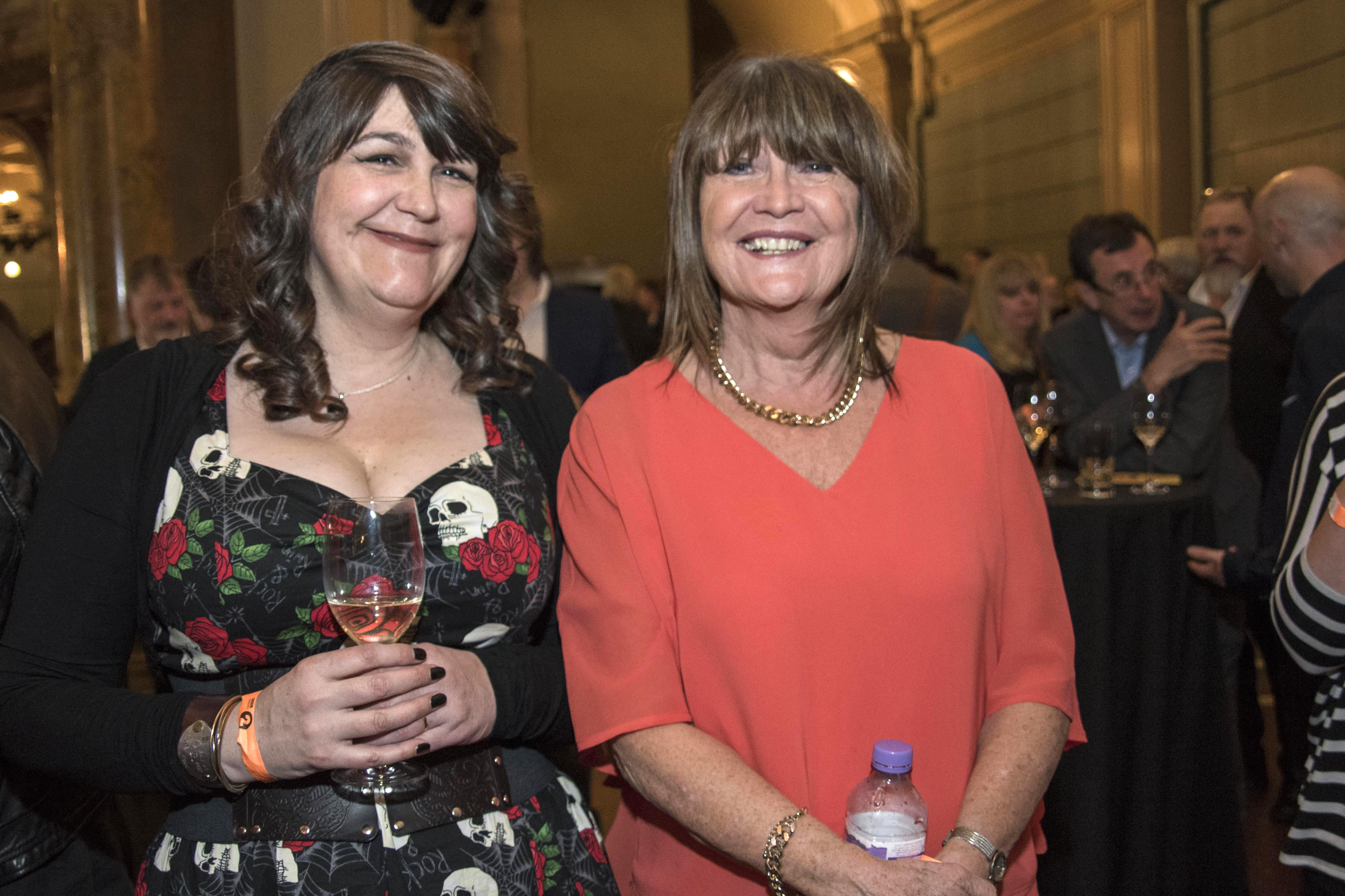 BBC Radio 2 Folk Awards 2016 at The Royal Albert Hall